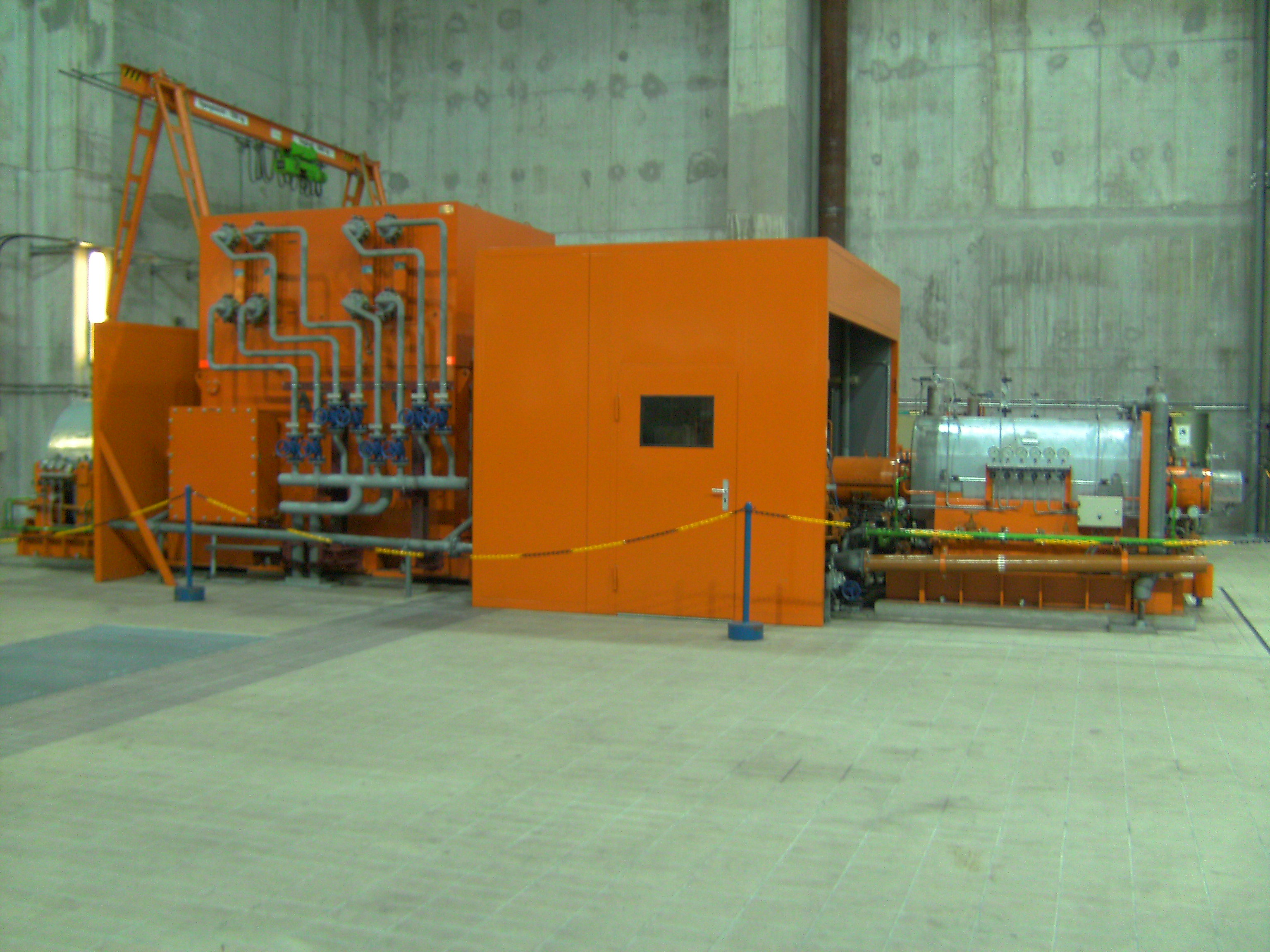 Feeder pump of Altbach Power Plant